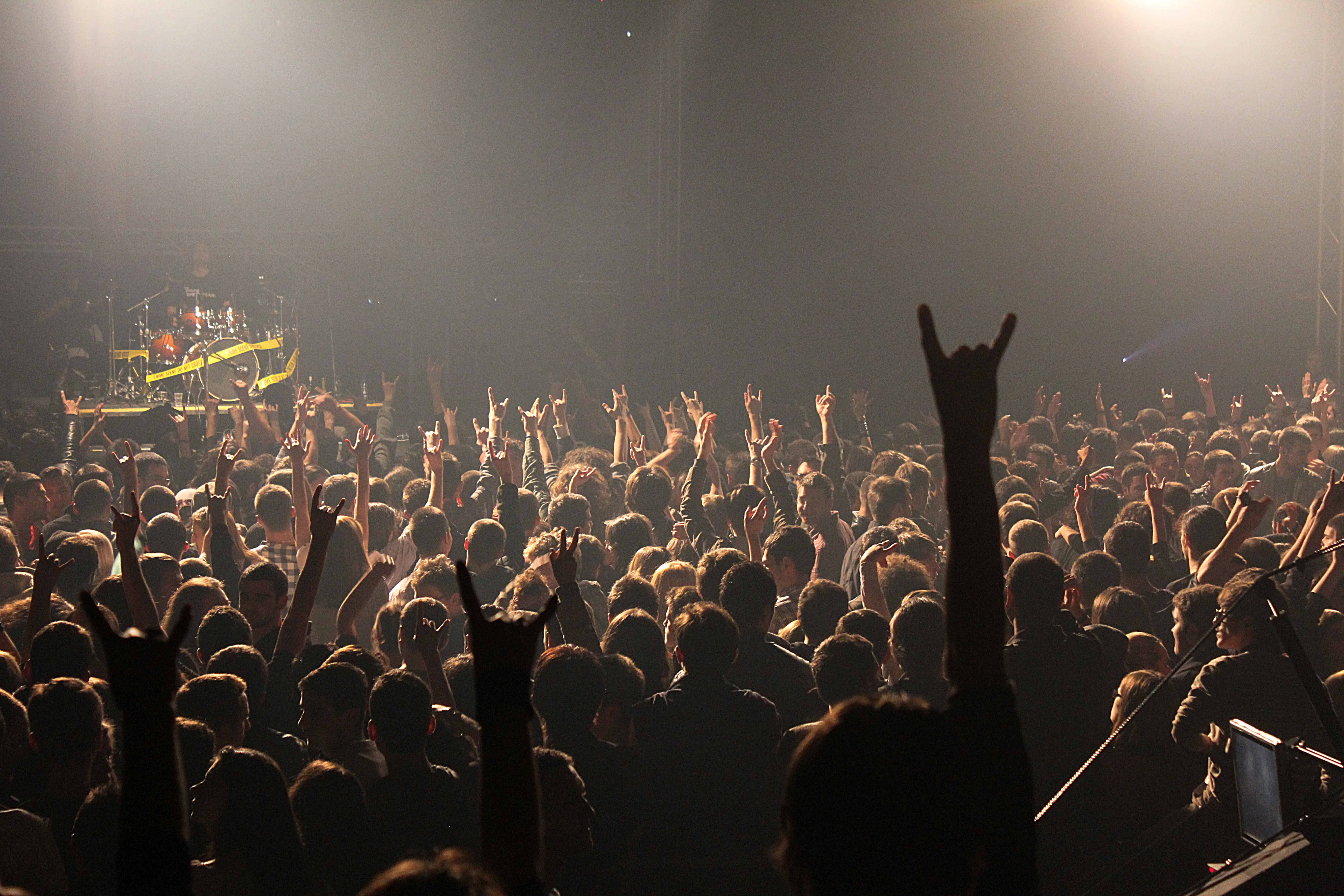 The concert of Troja in the hall "1 tetori" signifying the nightlife in Prishtina. Troja is a heavy metal band formed in 1990 in Prishtina.